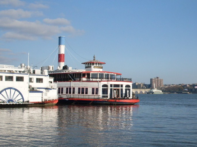 Binghamton (ferryboat) moored in Hudson River at Edgewater, New Jersey beside other boat, Neo Binghamton. New York City in background